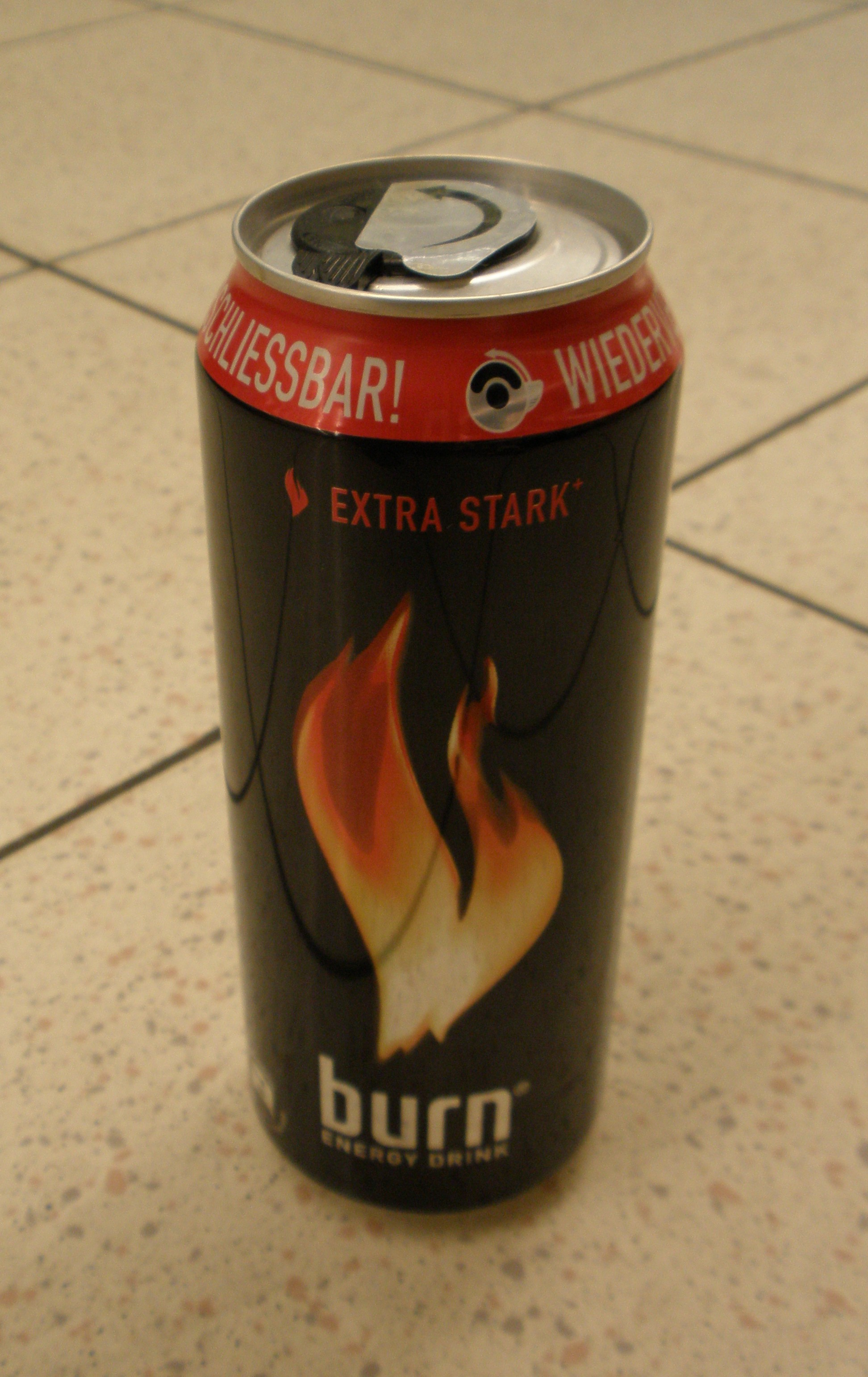 burn Energy Drink, 485ml re-closable aluminium can